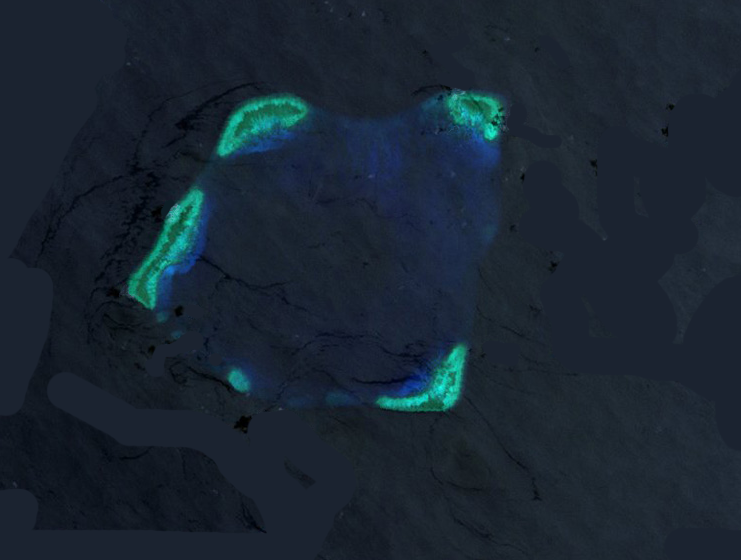 Jackson Atoll Landsat 7.Path 119 Row 53. (USGS/NASA Landsat)